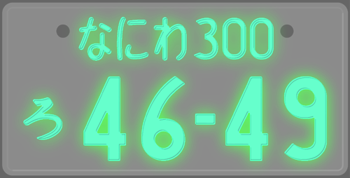 Night image of "Jiko-Shiki" (Letters illumination) plate. This sample license plate is registered to Naniwa, Osaka.